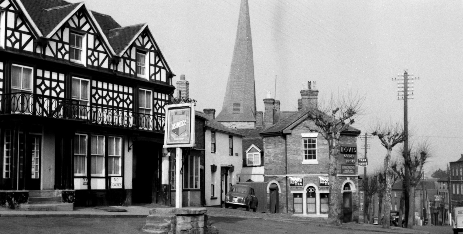 Cleobury Mortimer leaving the High Street to join Church Street Eagle lane is to the right of the photographer.